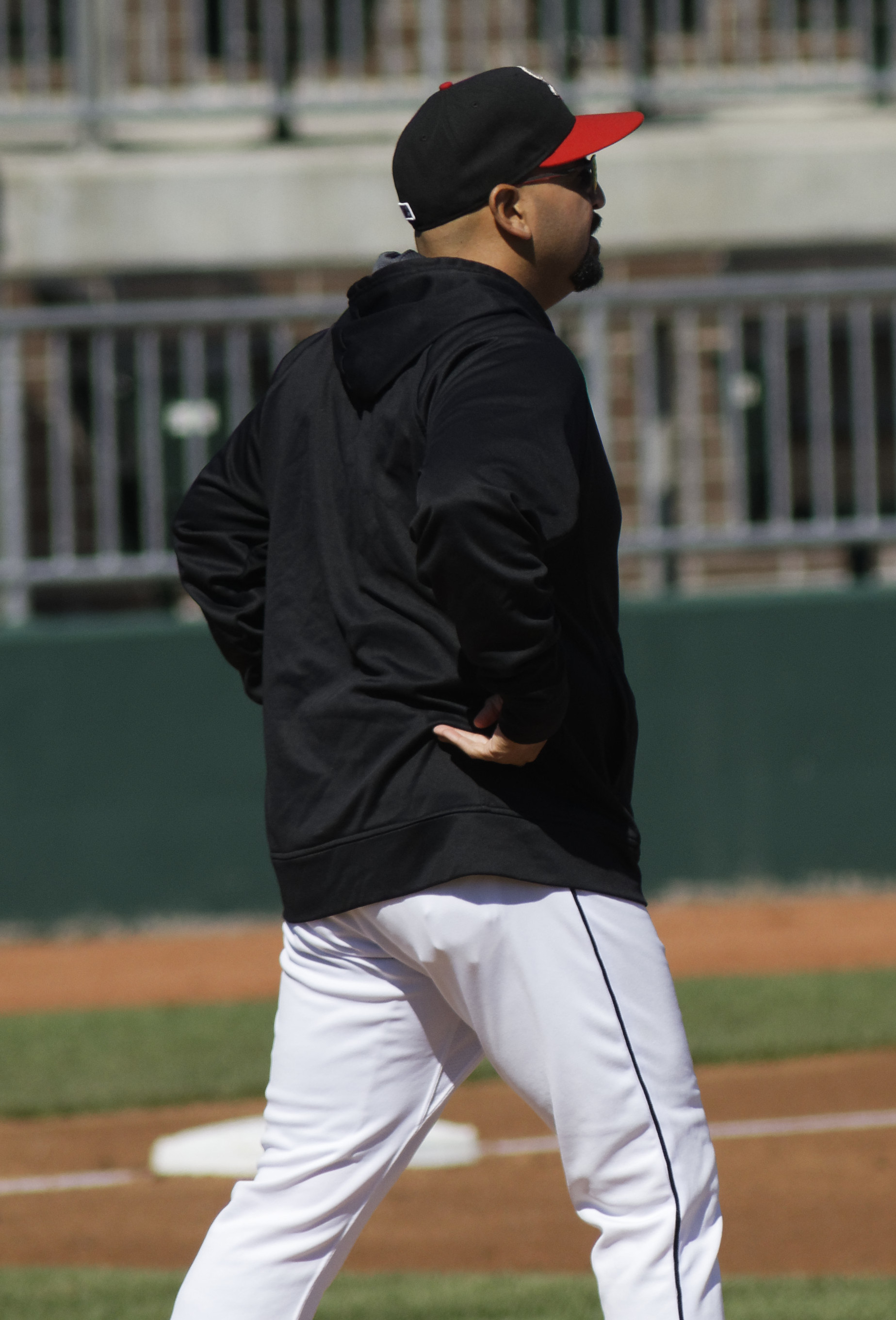 Coach Willie Collazo of the Lansing Lugnuts makes a mound visit during a game in 2017.